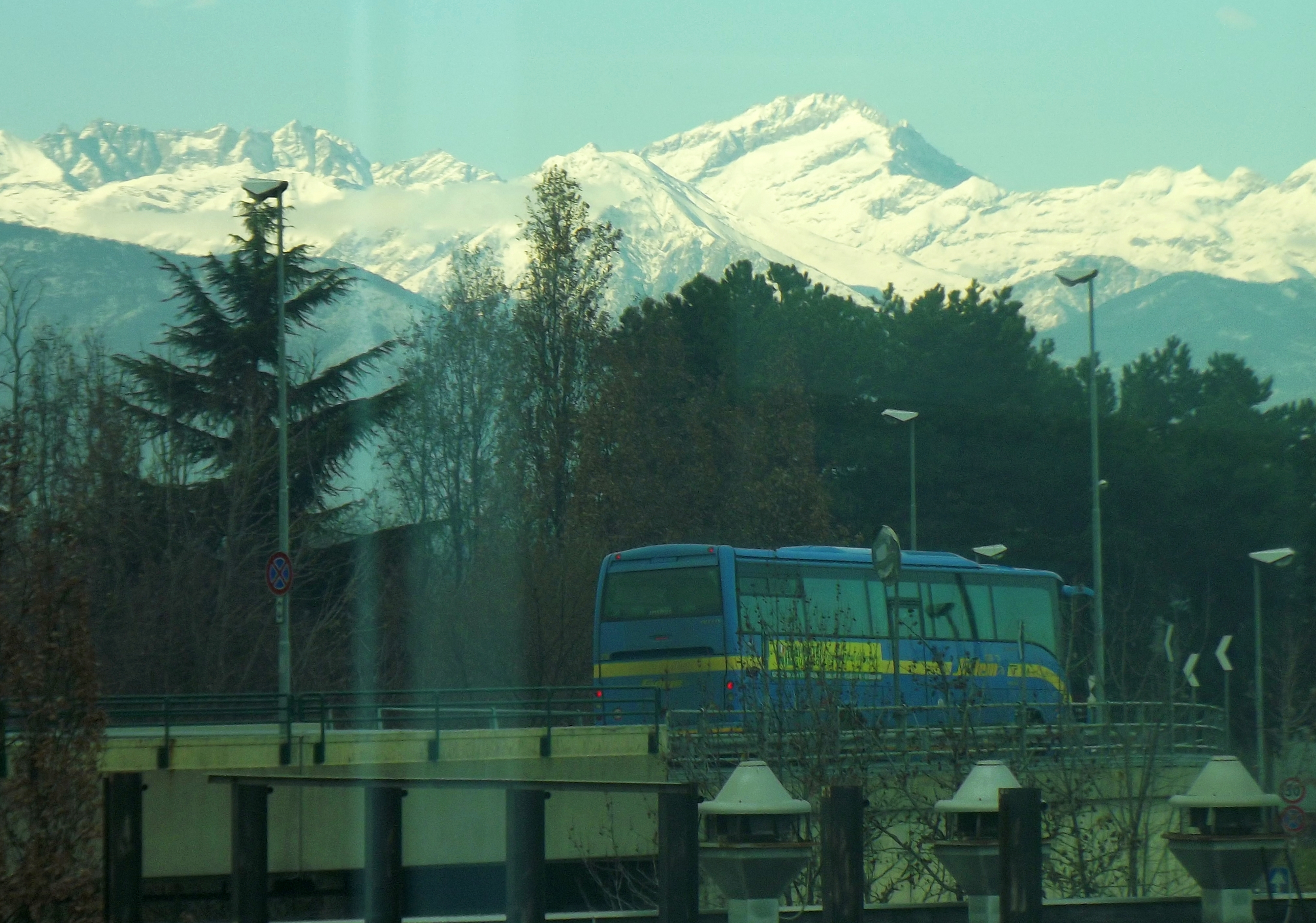 Sadem bus at Sandro Pertini airport (Caselle Torinese, TO, Italy); in the background the Levanne (Graian Alps)